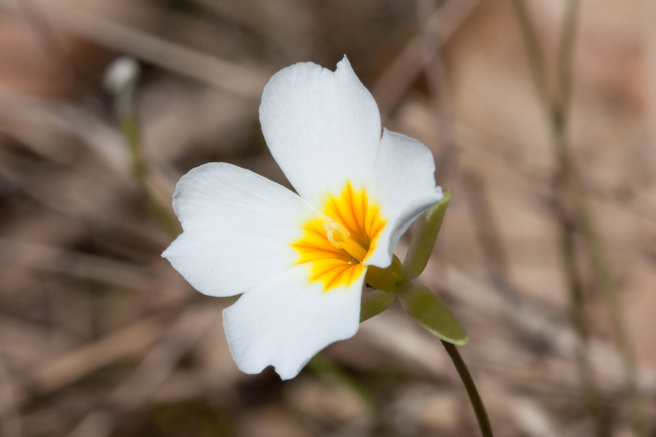 Cedar Gladecress (Leavenworthia stylosa) in Rutherford County, Tennessee